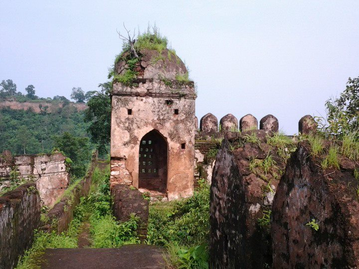 Part of Palamau Fort, near Daltonganj, India.